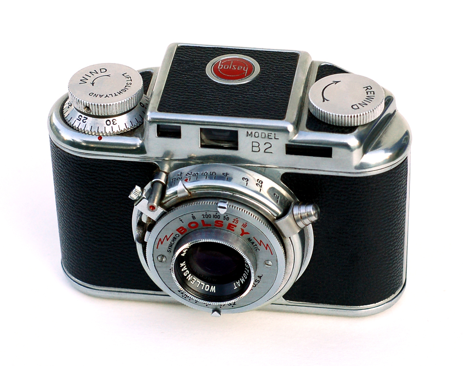 The Bolsey B2 is a compact 35mm camera with a coupled rangefinder, made from 1949-56 in New York. This particular example was manufactured prior to July 17, 1951.